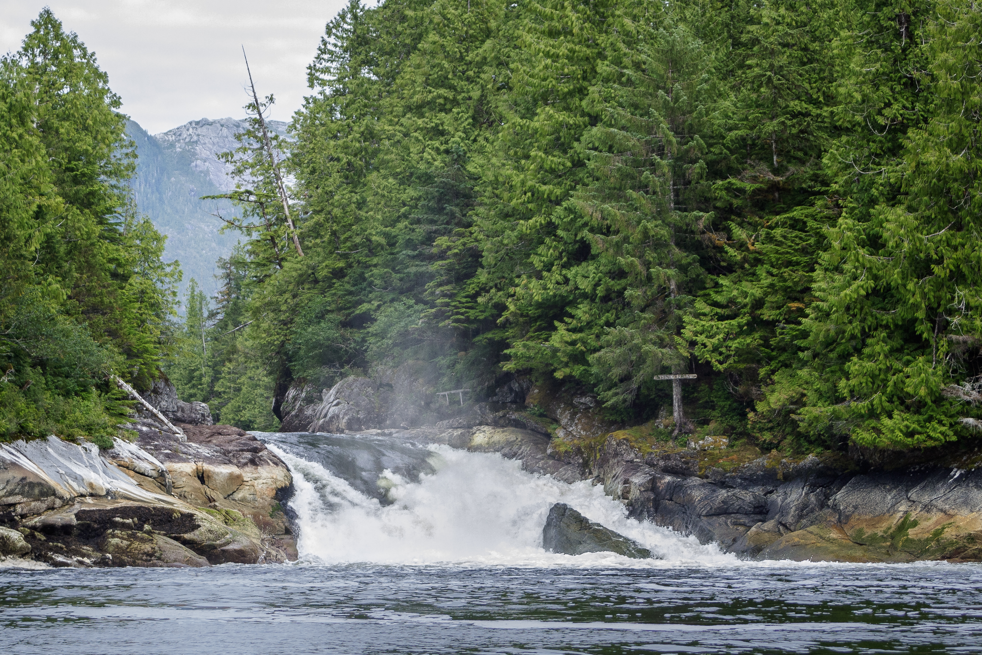 Verney Falls are at the head of Lowe Inlet. This photo was taken in a protected area in Canada, Wikidata item Lowe Inlet Marine Provincial Park (Q6693131)